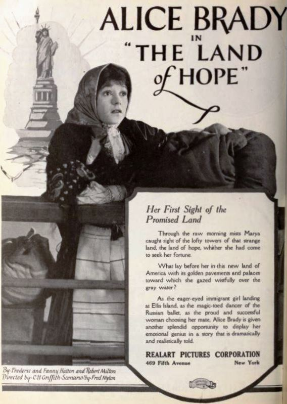 Advertisement for the American drama film The Land of Hope (1921) with Alice Brady, on page 8 of the May 28, 1921 Exhibitors Herald.